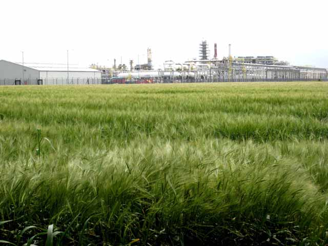 Mablethorpe Gas Terminal The terminal for the Pickerill Gas Field in the southern North Sea. Seen from Crook Bank, the field of barley oddly at variance with the major industrial installation beyond.